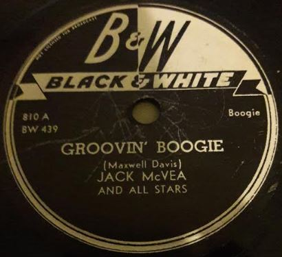 Captured with a 2016 Samsung J7 Phone on 2/22/20. Cropped on 2/23/20.